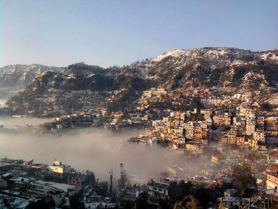 Snowfall 2013 Solan